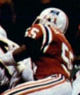 New England Patriots' right outside linebacker Don Blackmon pictured in a defensive play against the Chicago Bears in Super Bowl XX.